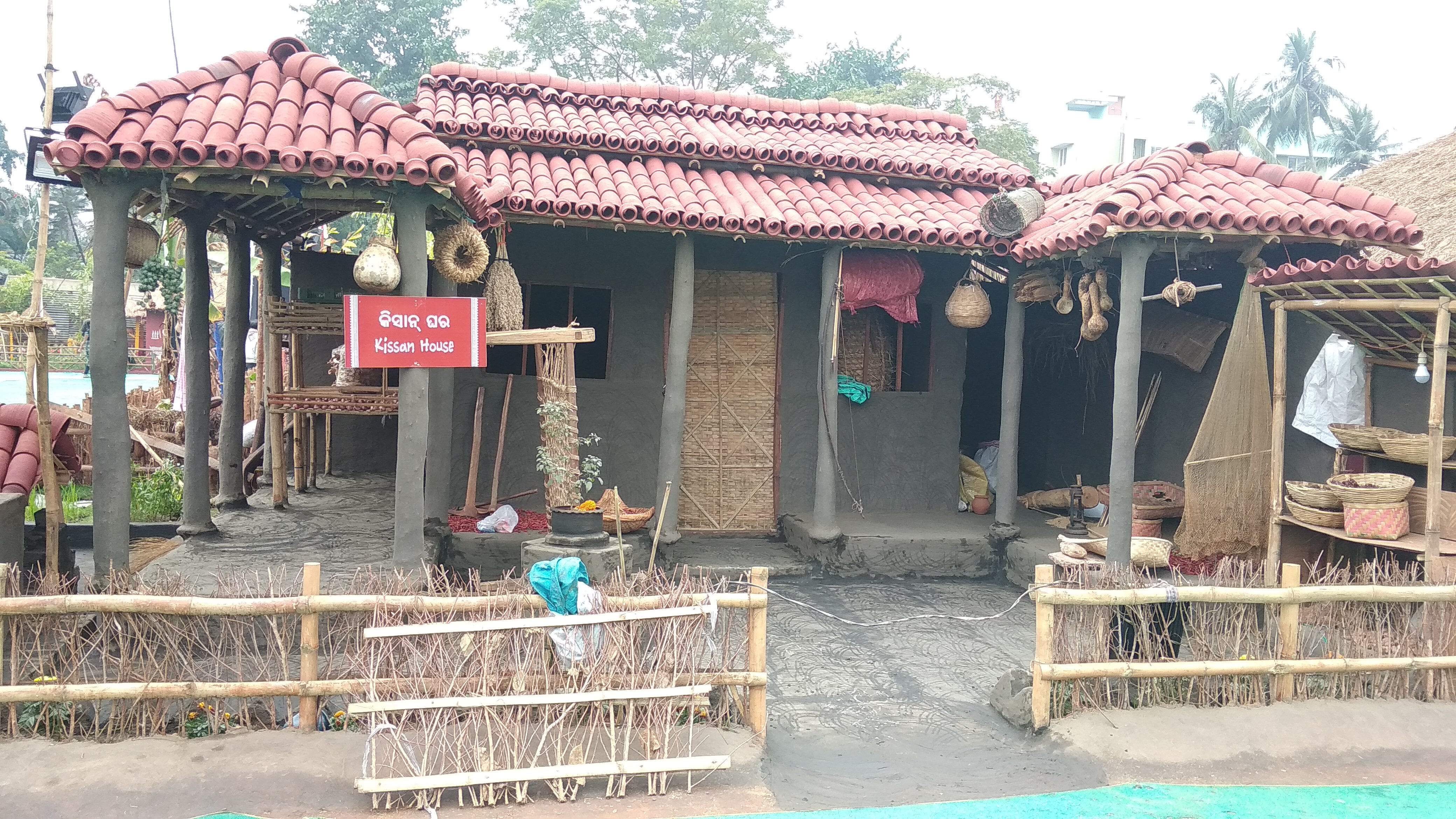 This photo has been taken in the country: India